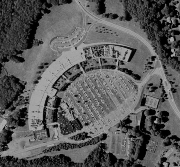 Aerial image of IBM's Thomas J. Watson Research Center